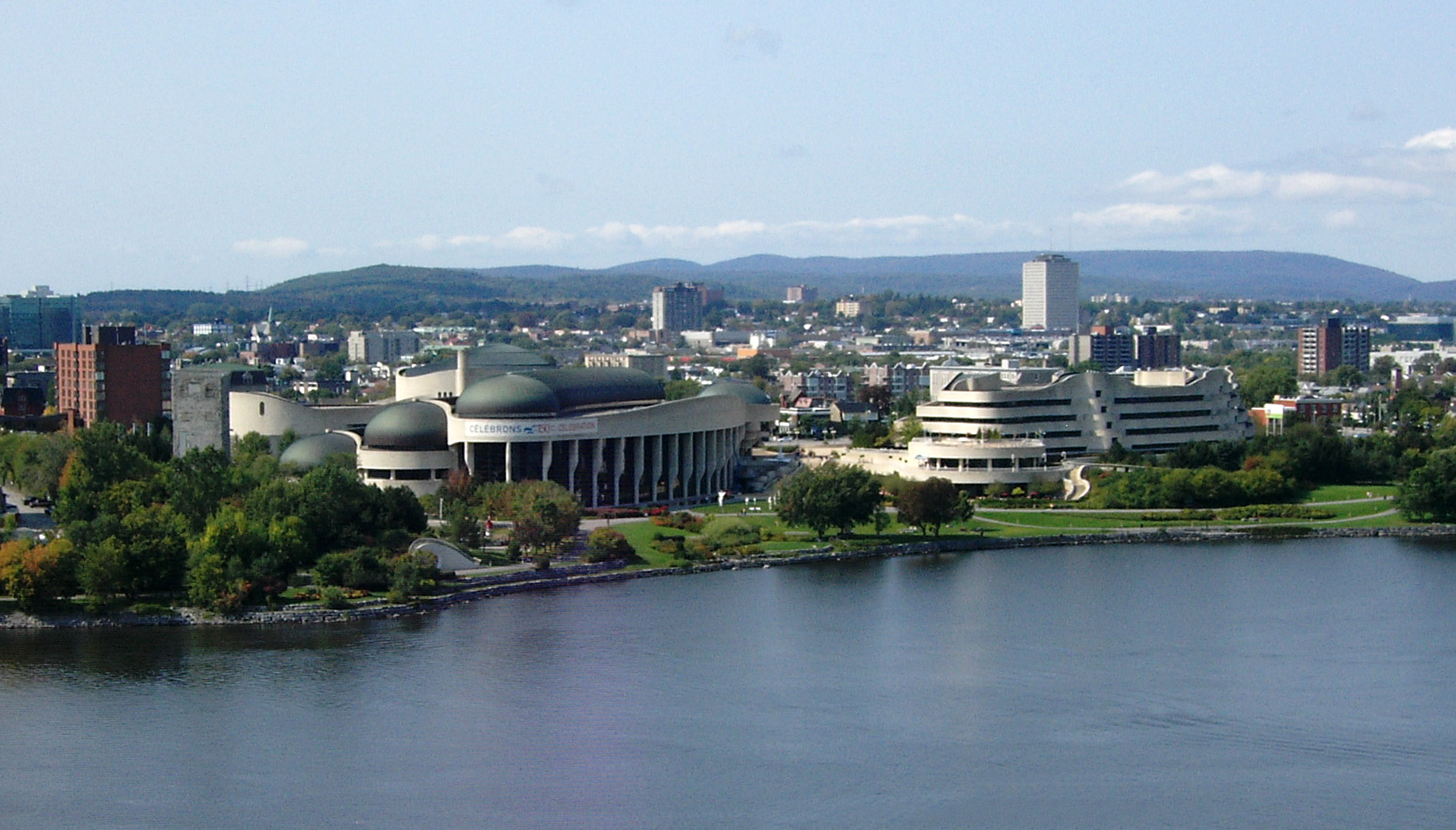 The city of Gatineau, Quebec, as viewed from Parliament Hill in Ottawa.